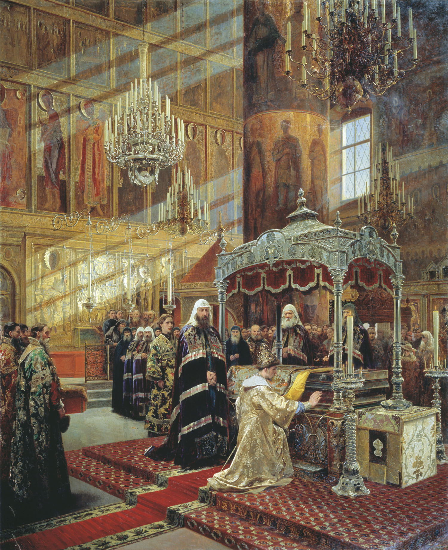 Alexander Litovchenko (1835-90). Young Tsar Alexis Praying Before the Relics of Metropolitan Philip in the Presence of Patriarch Nikon.